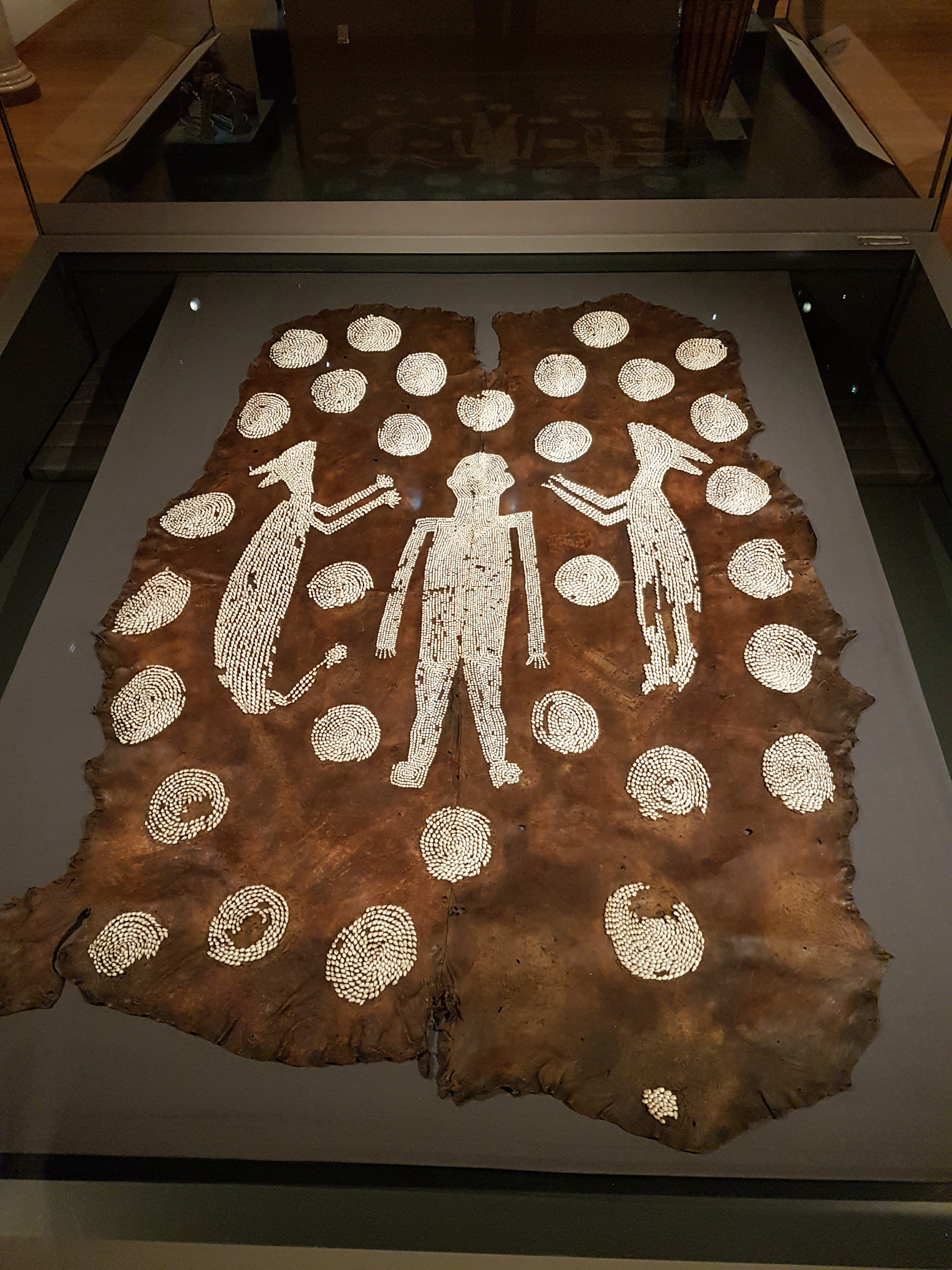 Made from deerskins and shells, it is associated with the seventeenth-century native Indian ruler Powhatan, father of Pocahontas. Chesapeake area, first acquired by a collector in 1638. Displayed in the Ashmolean Museum, Oxford.